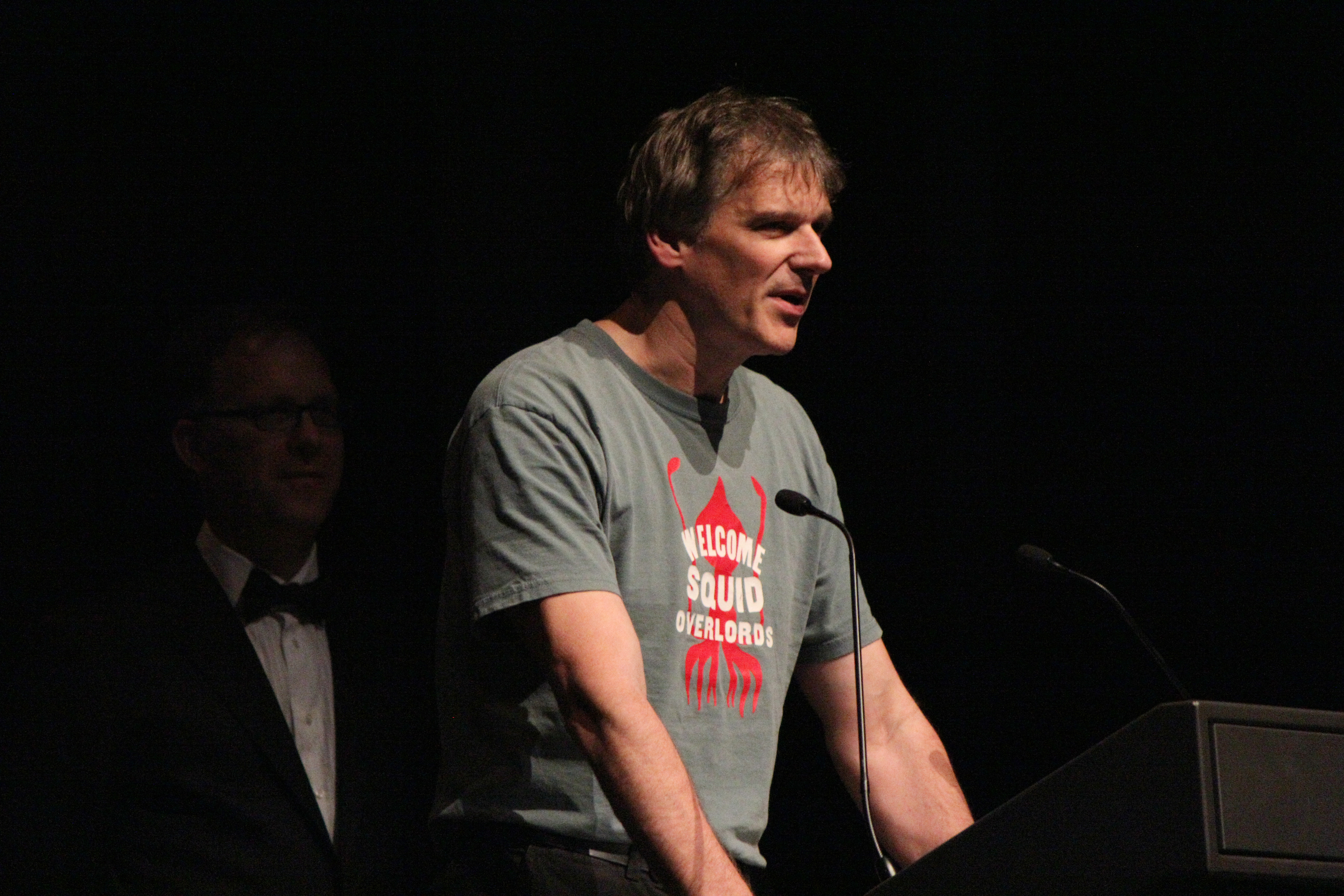 Peter Watt's acceptance speech at the Hugo Awards ceremony in 2010.